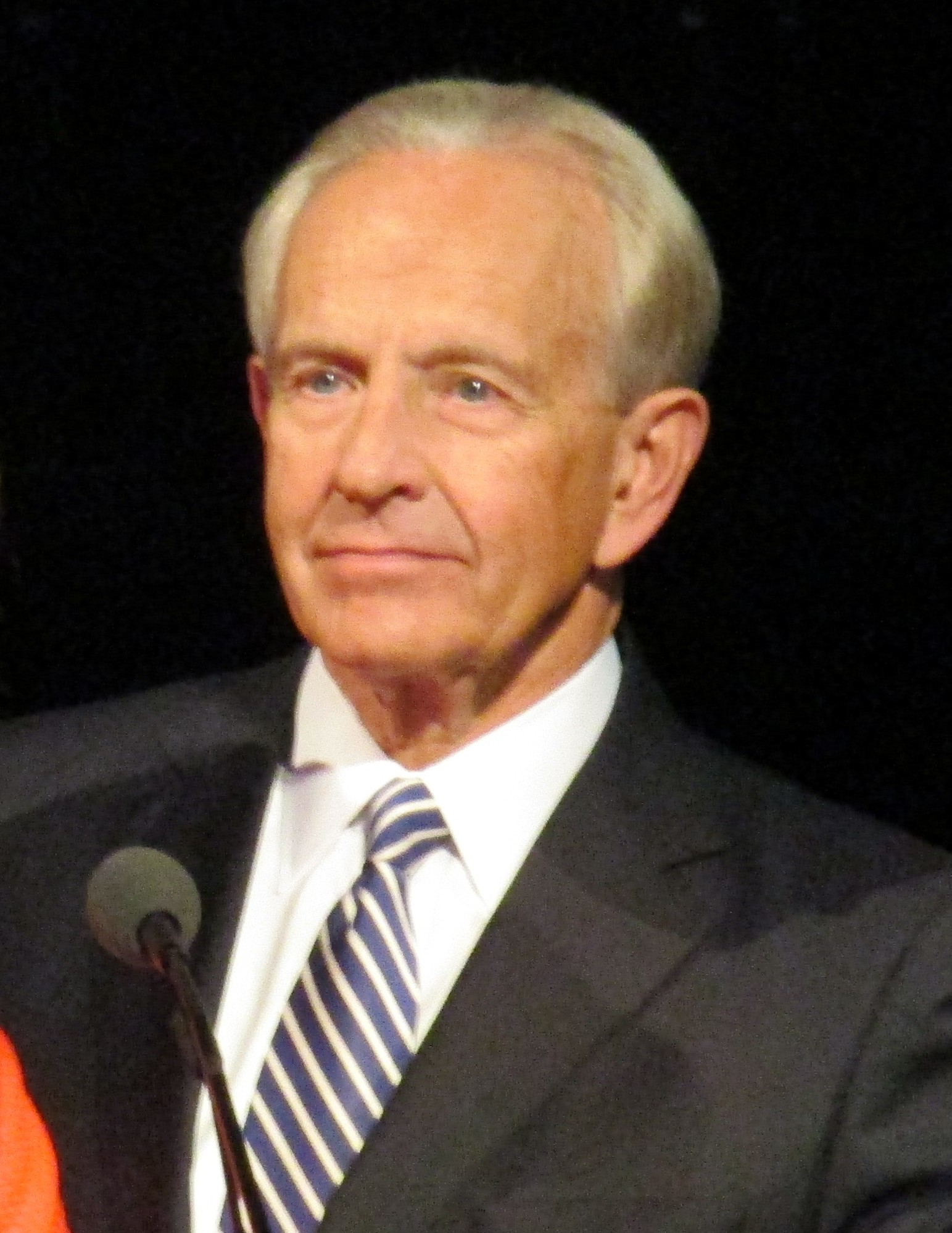 Janet and William Craig Zwick speaking together at the BYU Women's Conference.